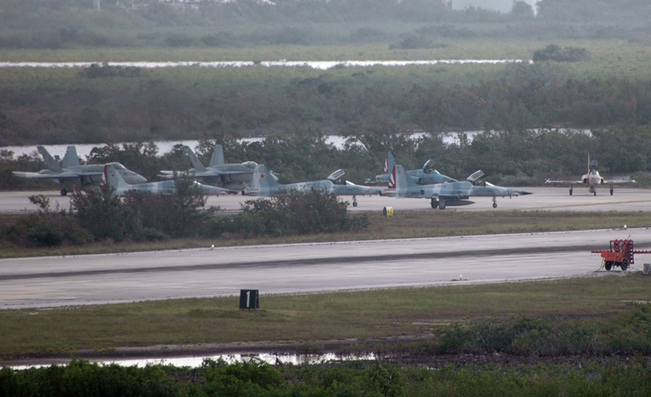 Five Northrop F-5N Tiger fighters of U.S. Navy fighter composite squadron VFC-111 Sundowners on the flight line at NAS Key West, Florida (USA), on 15 June 2007. Two McDonnell Douglas F/A-18 Hornet fighters are visible in the background.